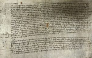 The 'French Petition' to King Richard III was a petition from the University College, Oxford, asking for a certain property case to be seen before the King's Council. In appealing to the young richard's sense of family history, it became the source of the oft-repeated myth (at least before the 19th-century) of university college's founding by King Alfred.